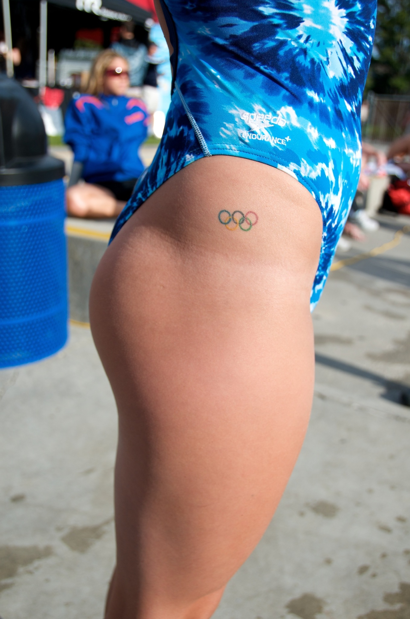 Olympic rings